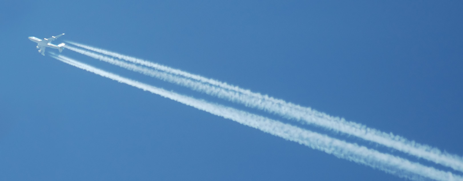 This image shows the contrail of a four-engine jet including the jet (Boeing 747).